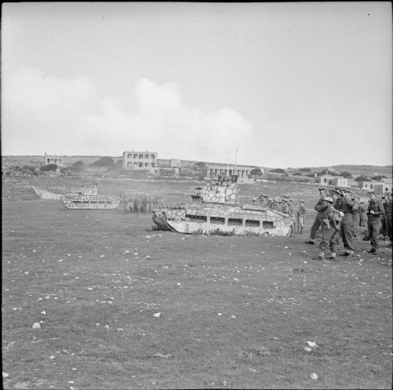 The British Army on Malta 1942 Matilda tanks, painted in distinctive Malta camouflage, give a gunnery demonstraion during a training exercise, 13 April 1942.